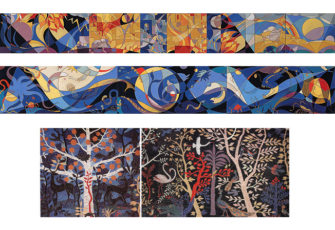 "Water", "Fire", "Day and Night in the Garden of Eden", Lev Syrkin